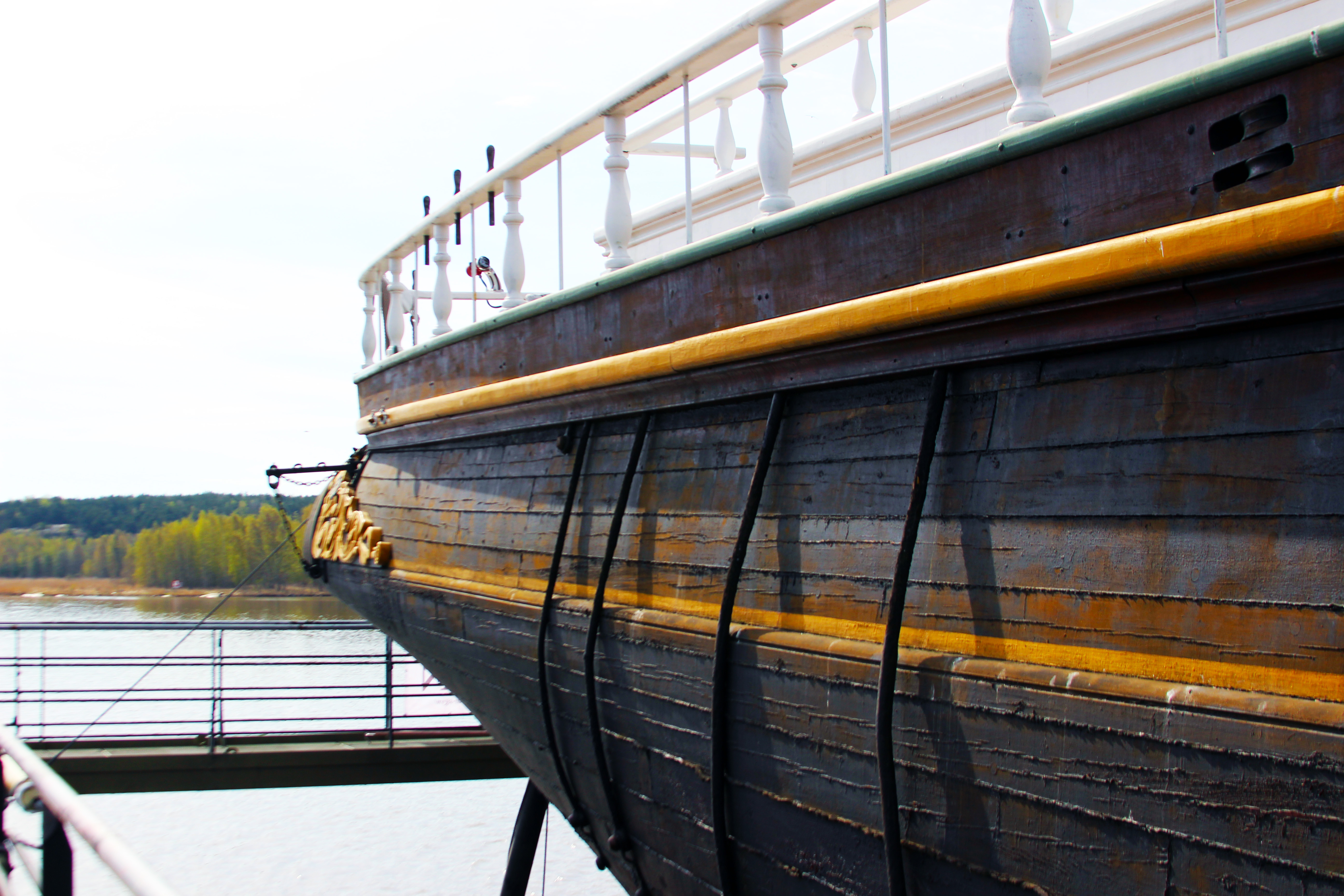 Museum ship Sigyn moved to the Ruissalo shipyard due to repair at 2018.